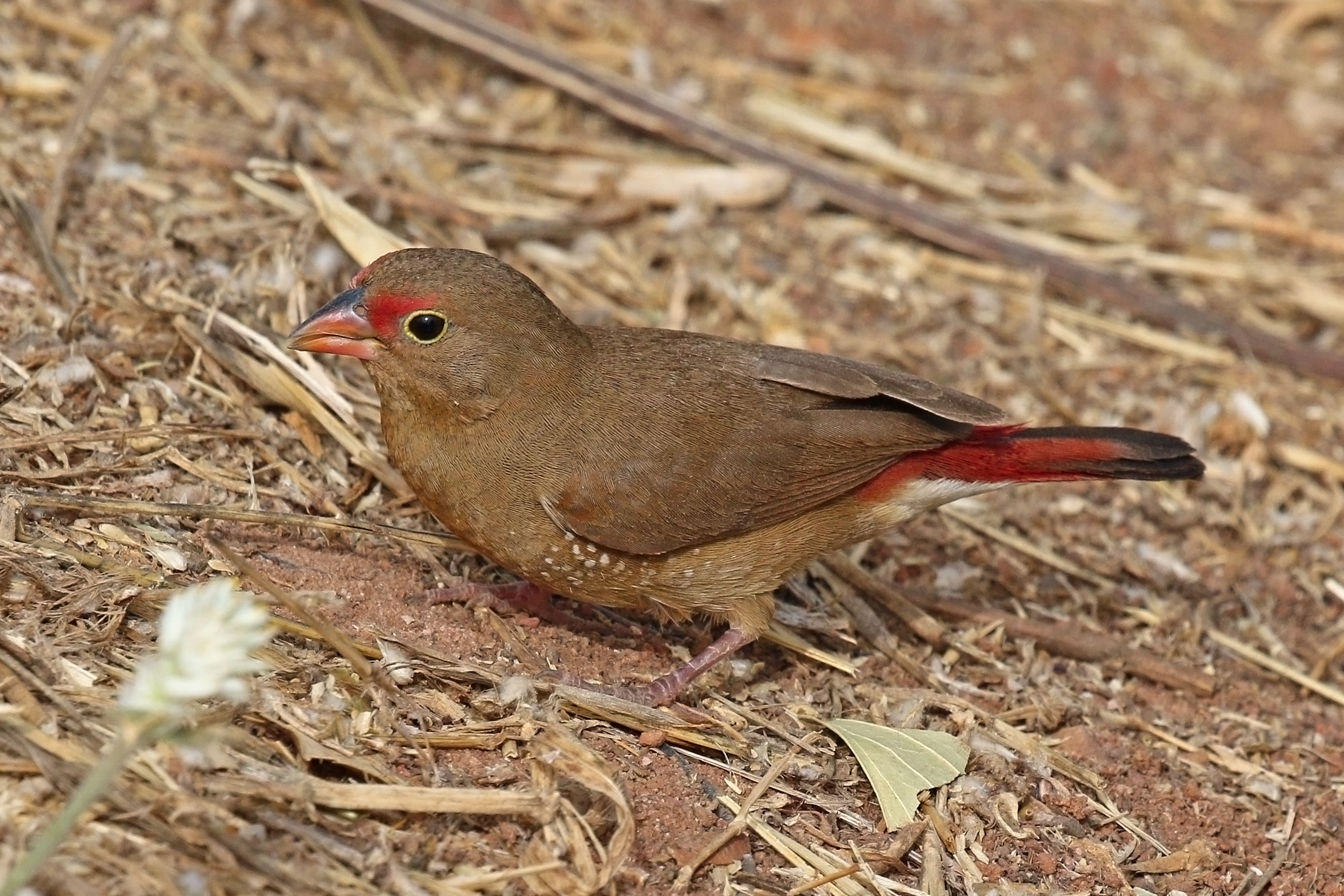 Red-billed firefinch (Lagonosticta senegala senegala) female, The Gambia